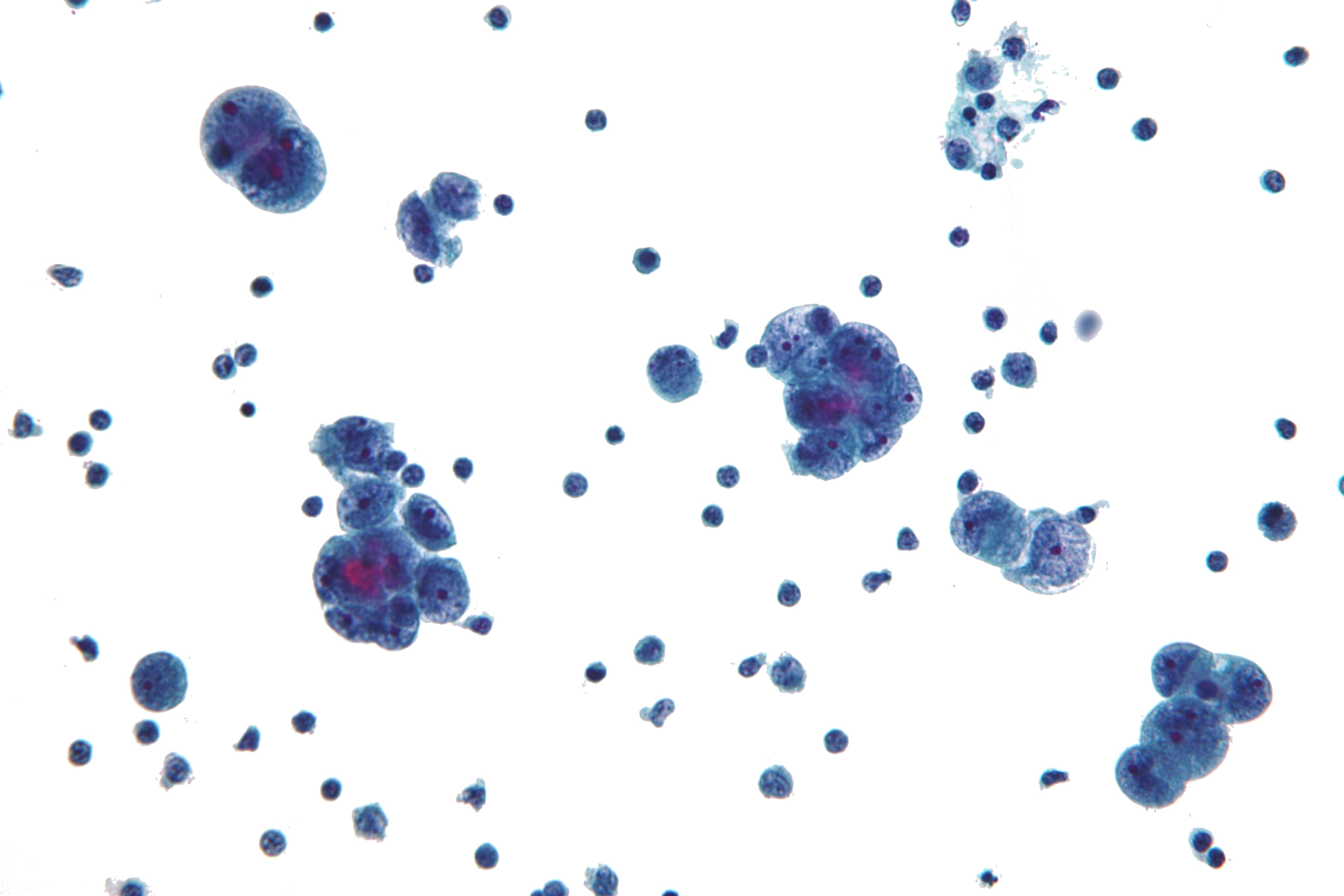 Micrograph showing serous carcinoma. Peritoneal fluid specimen. Features: Marked intragroup nuclear pleomorphism. Macronucleoli. "Knobby" group borders (in large groups) - not apparent on image. Hydropic vacuoles - not apparent on image. Differential diagnosis of serous carcinoma: Ovarian serous carcinoma. Uterine serous carcinoma. Fallopian tube serous carcinoma. Cervix serous carcinoma. Primary peritoneal serous carcinoma. Related images Animation showing 3-D nature of cluster. Component of animation. Component of animation. Another case. Low mag. High mag.